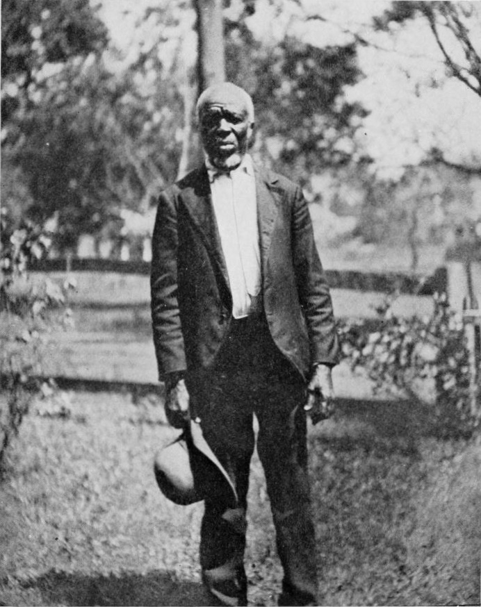 Photo of Cudjo Lewis, the last remaining survivor of the Atlantic slave trade between Africa and the United States.